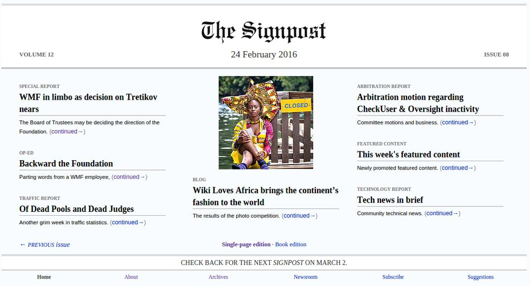 2016 February 24 issue of The Signpost